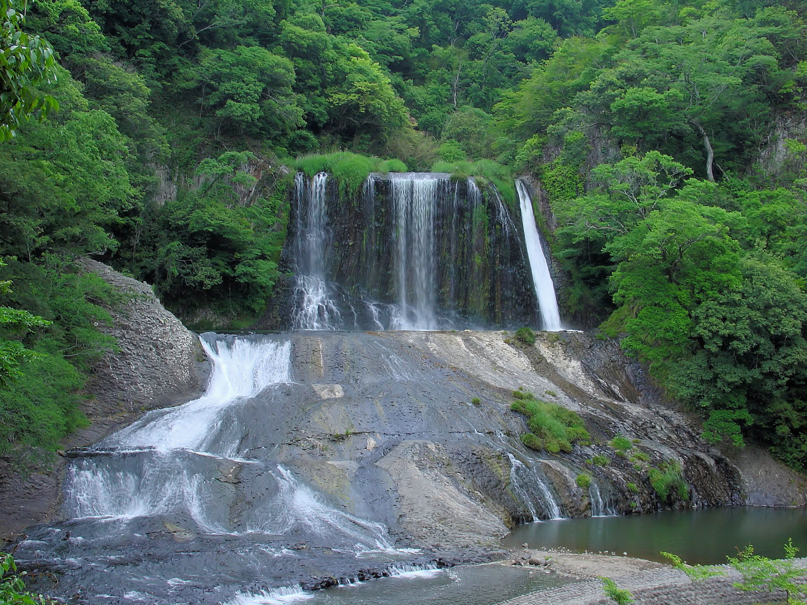 Ryumon-no-taki Falls.(Kokonoe Town, Oita Prefecture, Japan)